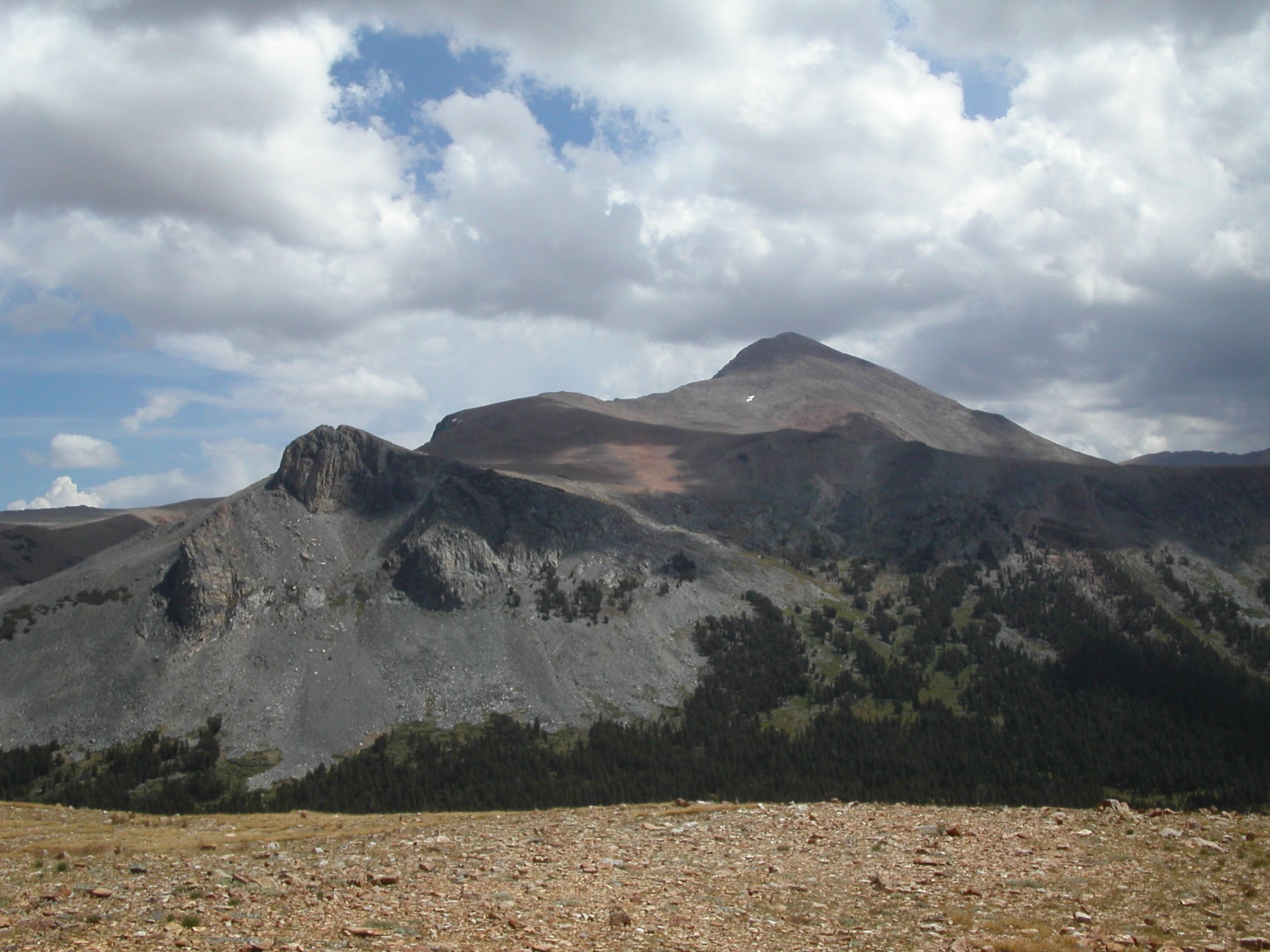 Mount Dana in Yosemite National Park, USA.